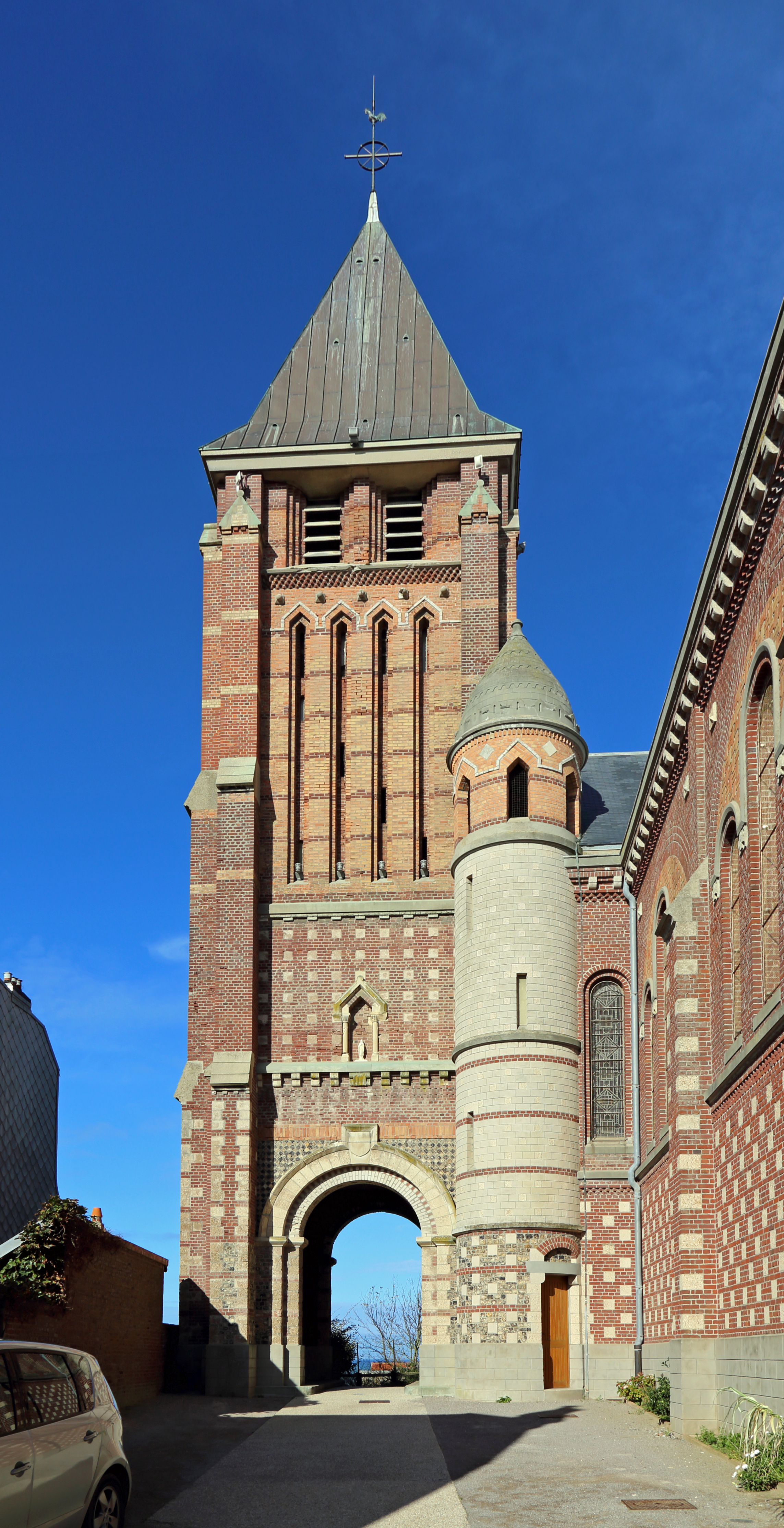 Mers-les-Bains (Somme department, France): the bell tower of Saint Martin church